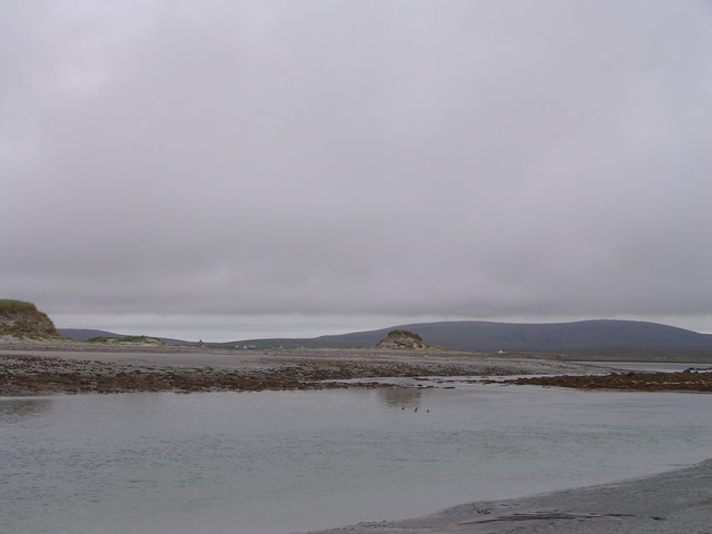 Southern Tip of Kirkibost Island